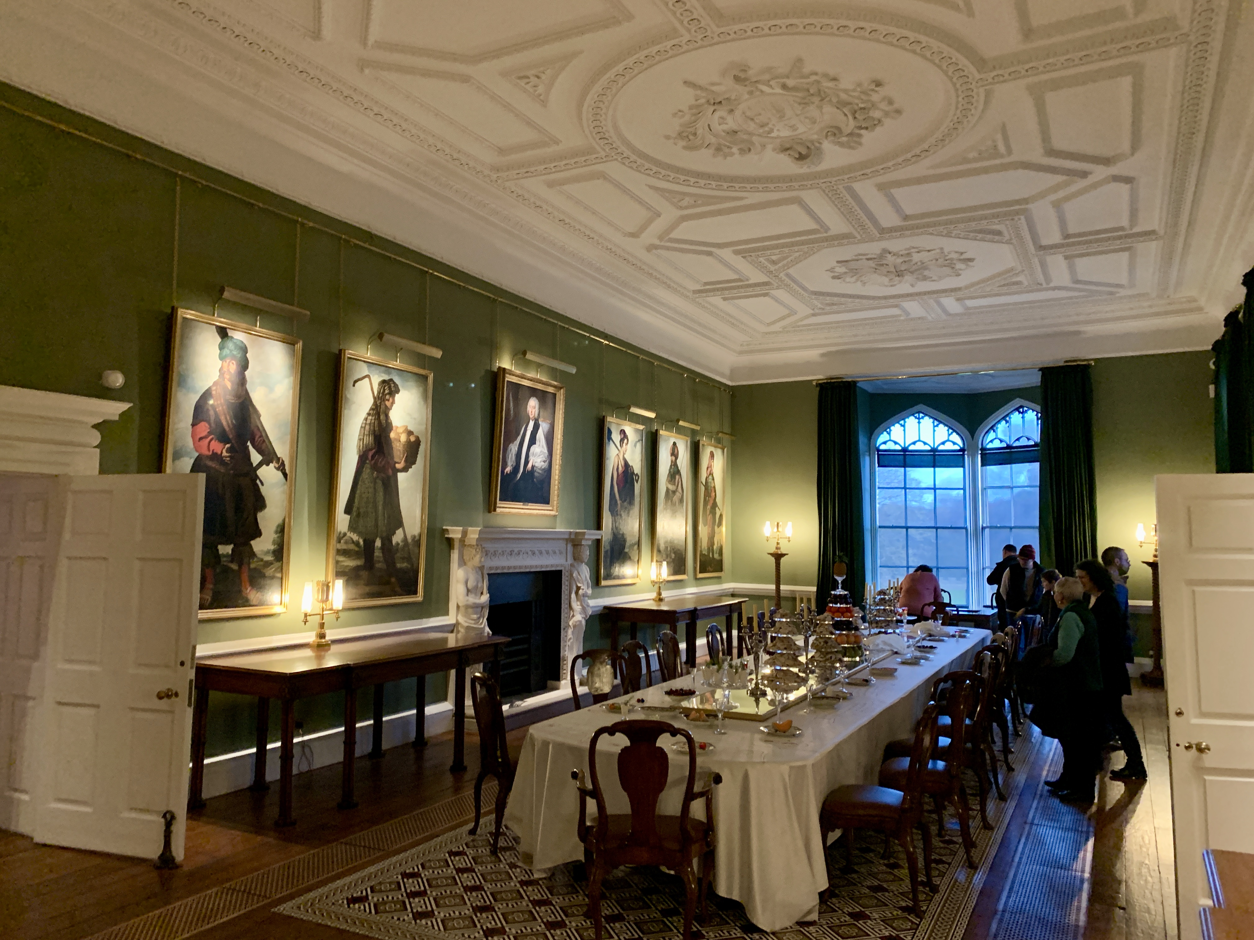 With the Francisco de Zurbarán paintings on the walls